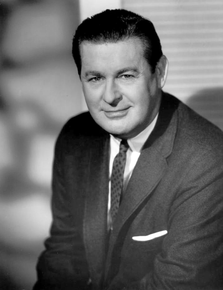 Photo of Don DeFore when he played the role of George Baxter in the television program Hazel.